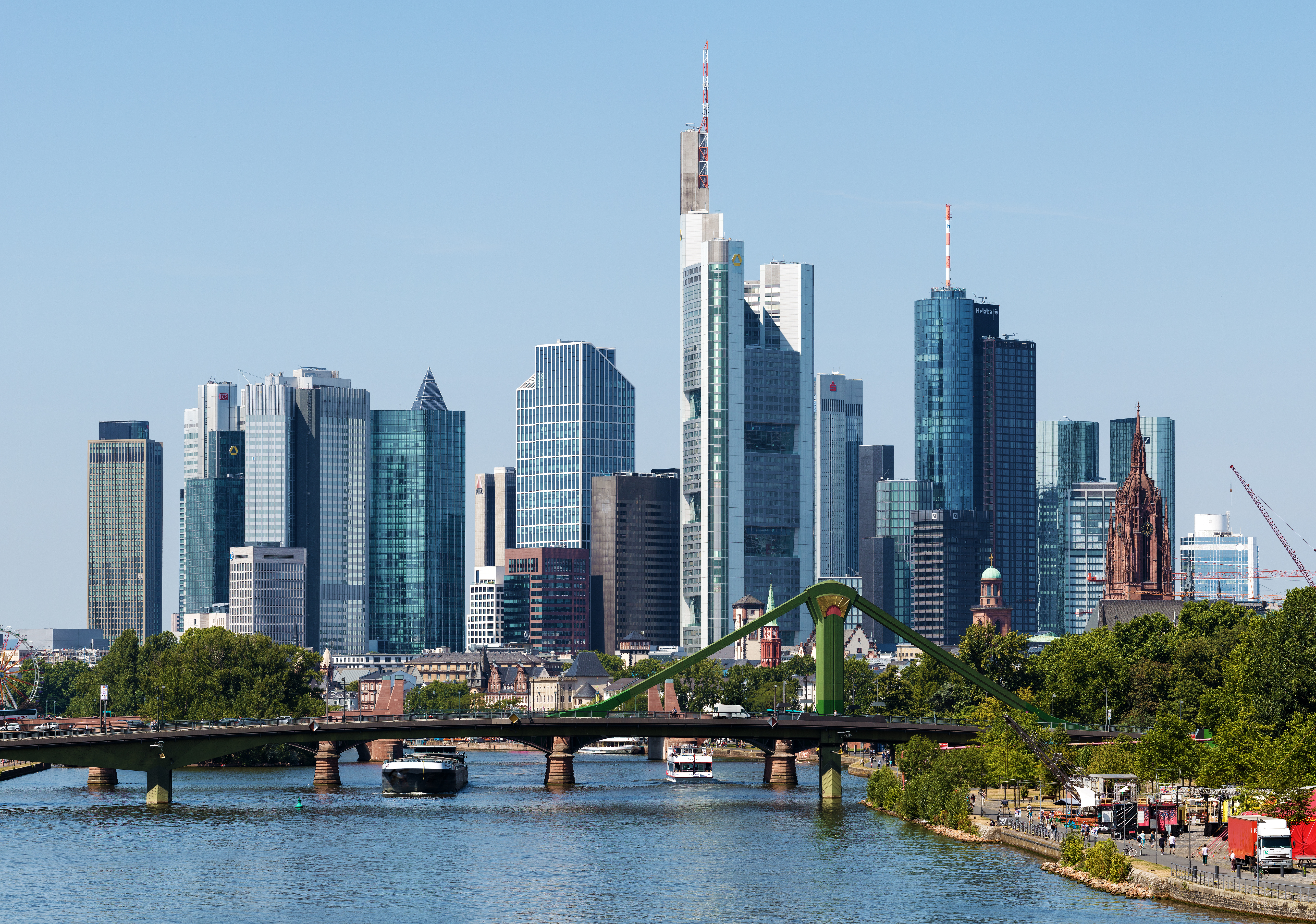 Skyline of Frankfurt am Main, Germany.